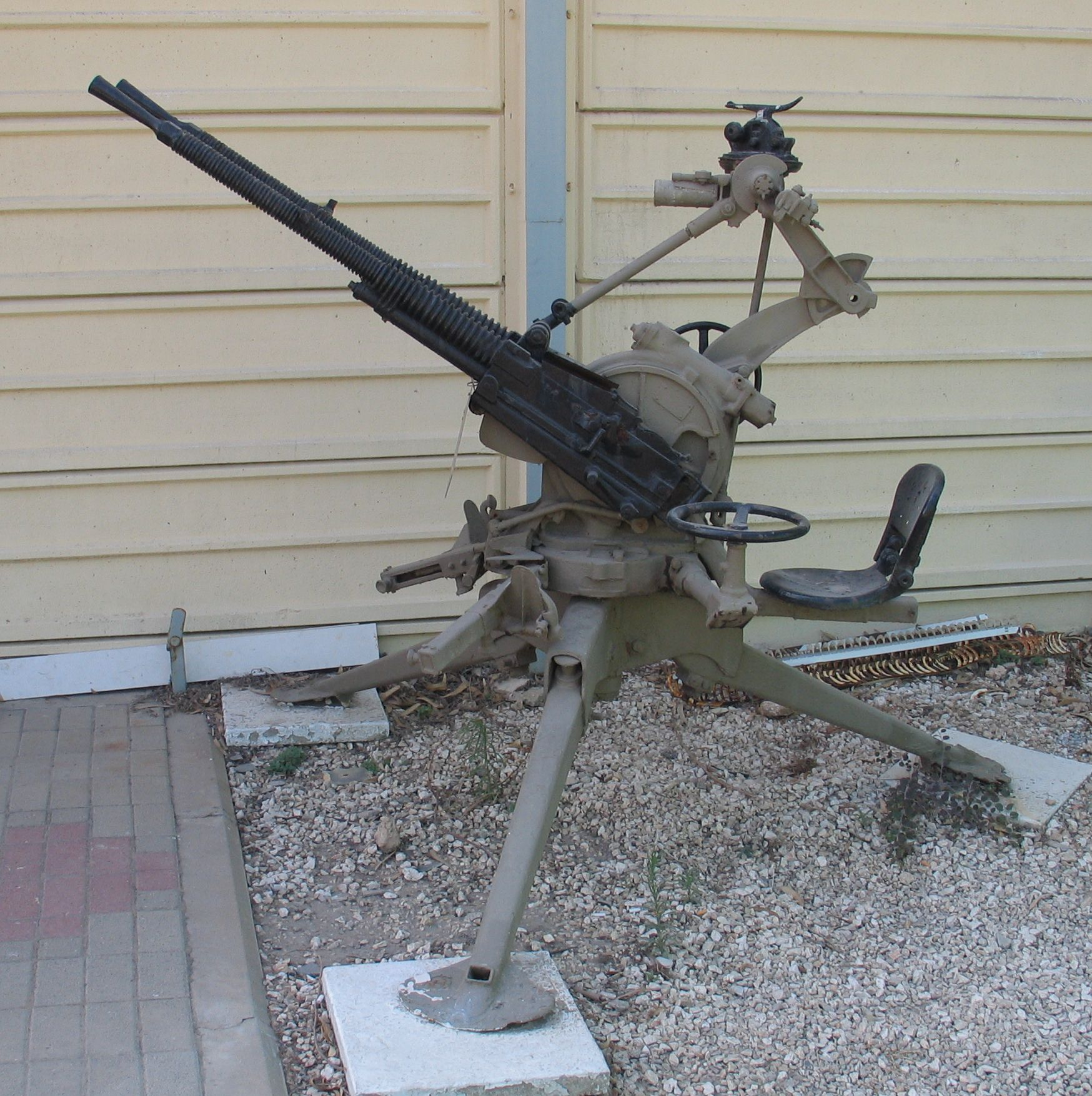 French Hotchkiss 13.2 mm machine guns in a twin anti-aircraft mount in Batey ha-Osef Museum, Tel Aviv, Israel.